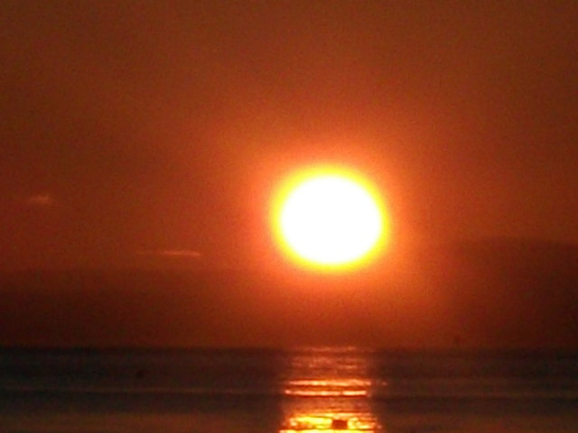 The Sun 08.53am and the distance from Lamlash to the Sun is approximately 149.6 million kilometres. A little bit closer the Ayrshire coast at approximately 30km can also be seen in this pic.